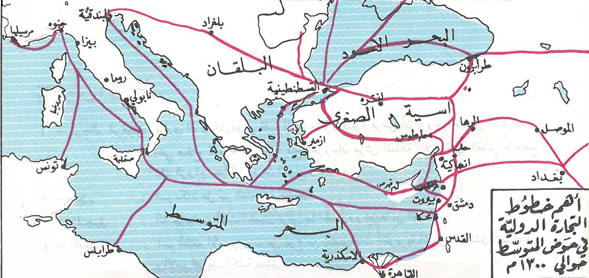 Most notable trade routs around the Mediterranian around 1300.